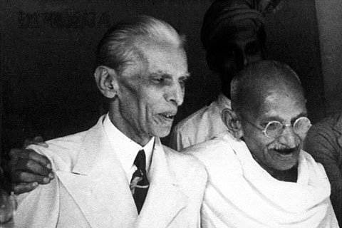 Gandhi and Jinnah, Bombay, September 1944.